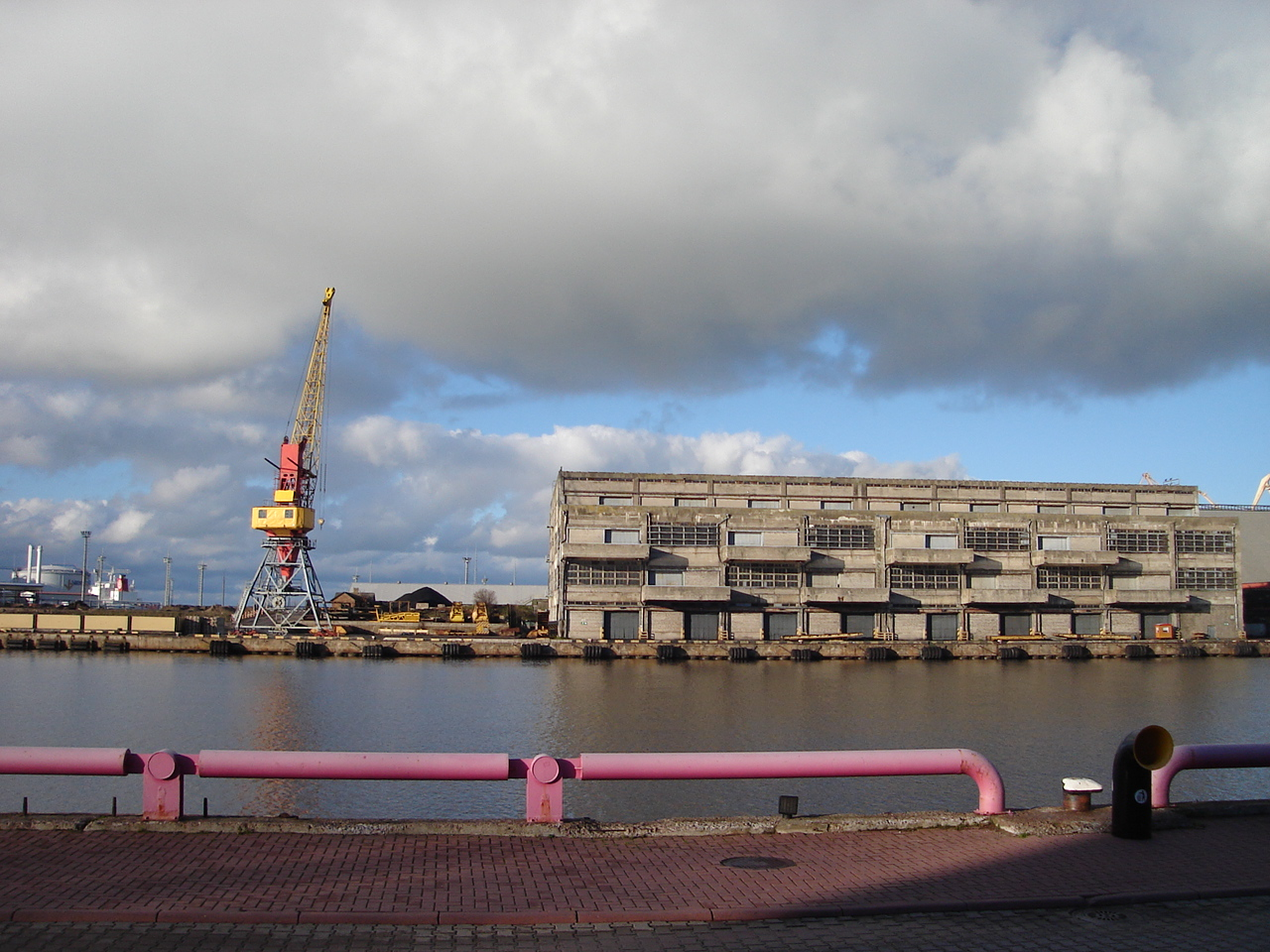 Ventspils' port on the river Venta